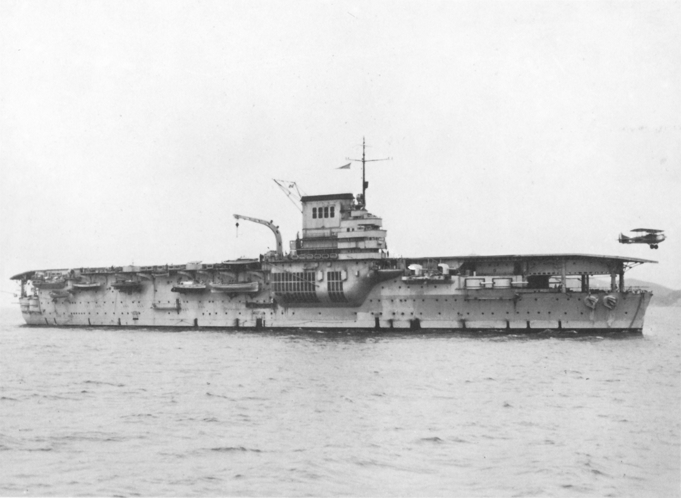 A Levasseur PL 7 torpedo bomber flying off the French aircraft carrier Bearn. The description is from Les Navire du Guerre Francais by Francis Dousset, page 58.